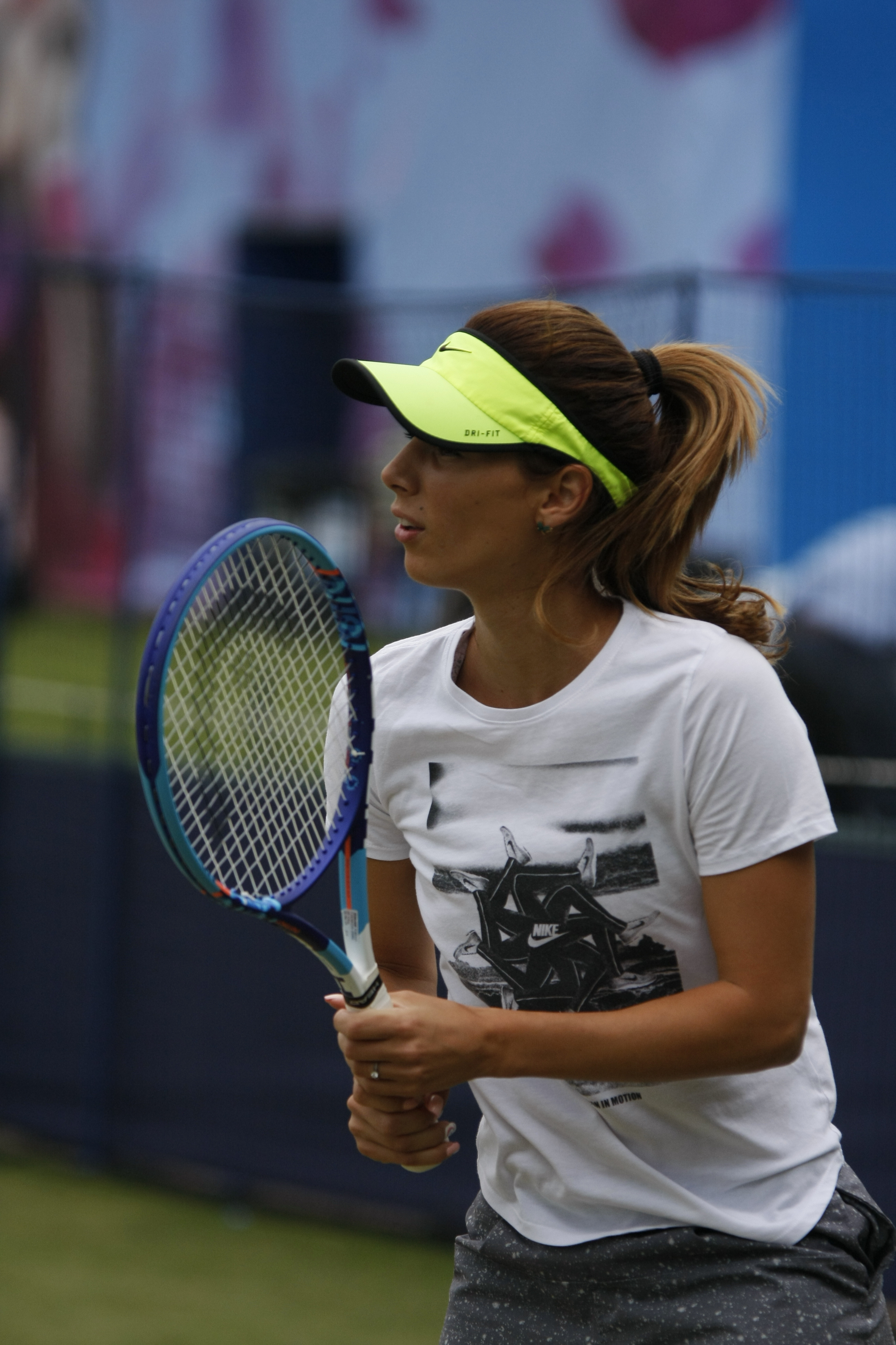 Aegon International Tennis, Devonshire Park, Eastbourne June 2015